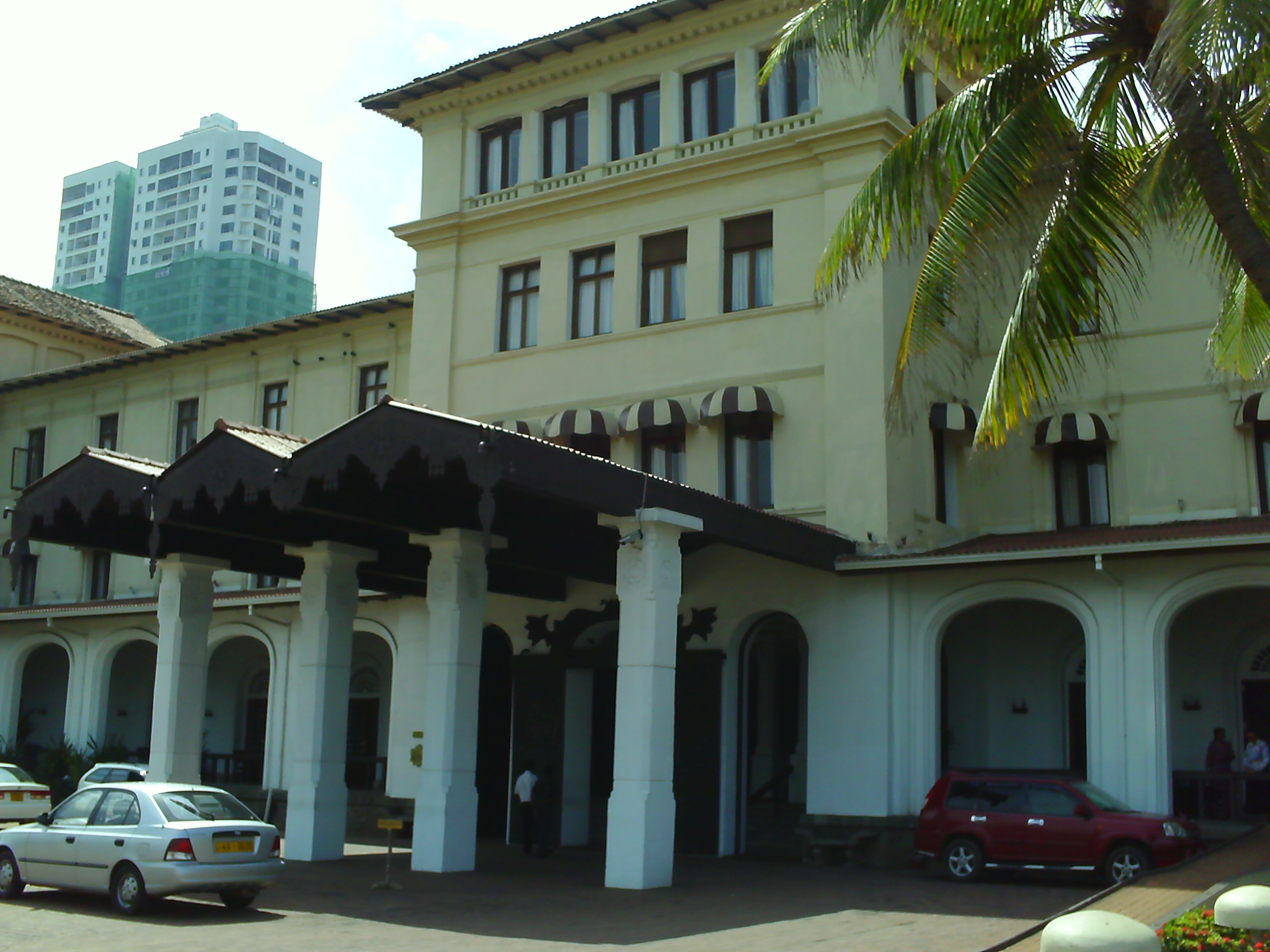 The entrance of the Galle Fave Hotel, Colombo, Sri Lanka.